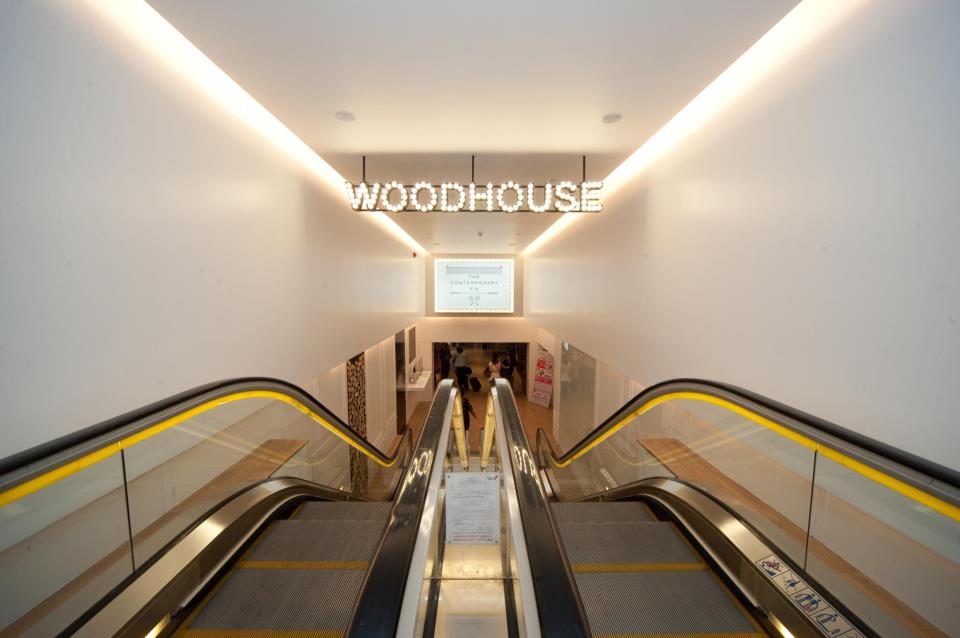 Entrance